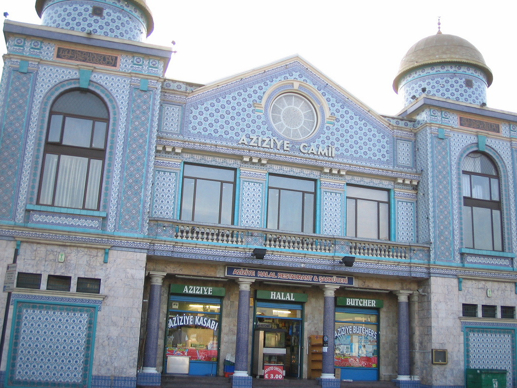 Aziziye Mosque Stoke Newington Road - 8th June 2008